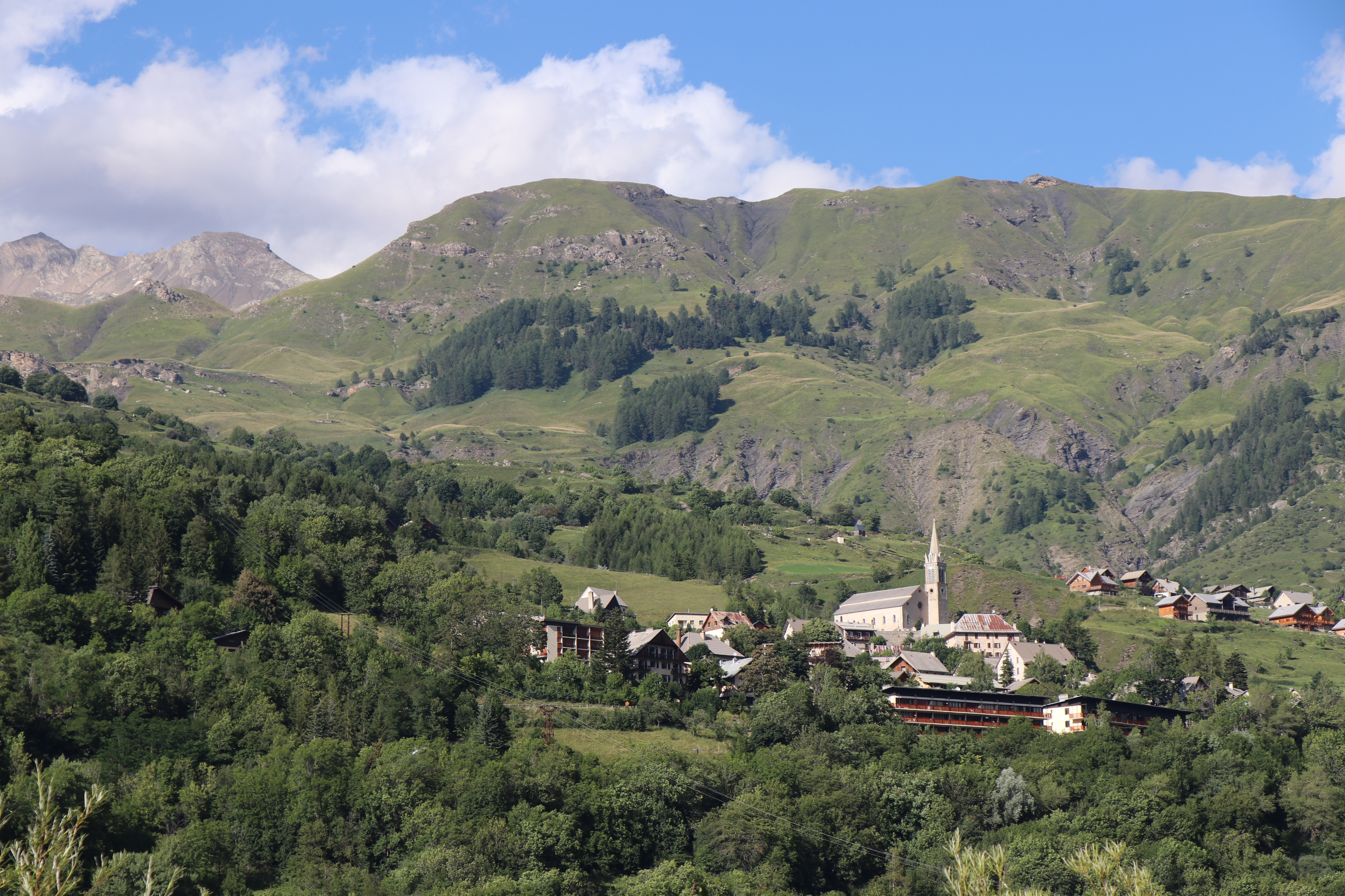 View of Orcières village in France High Alps